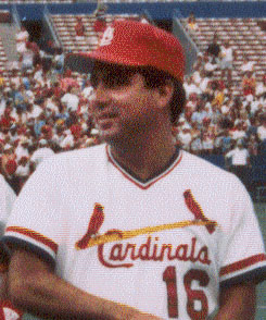 Cardinal coach Nick Leyva.